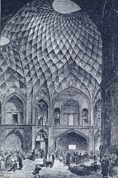 A rendering of Timcheh Amin-o-Dowleh, Kashan Bazaar. 1800s.